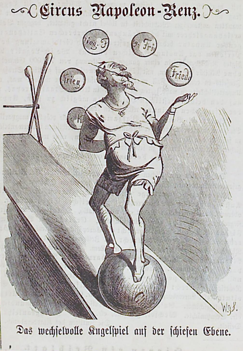 Karikatur, Kladderadatsch.